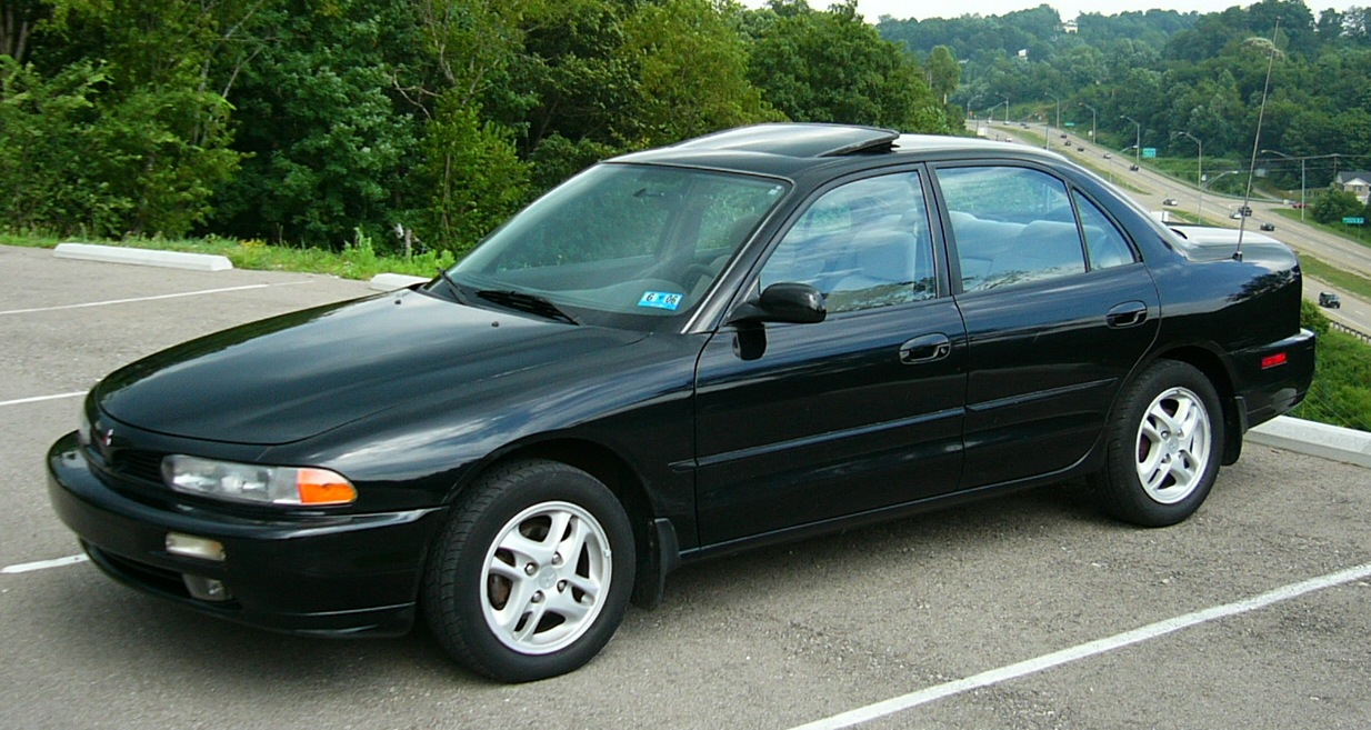 (C) 2005 Matthew Bowen